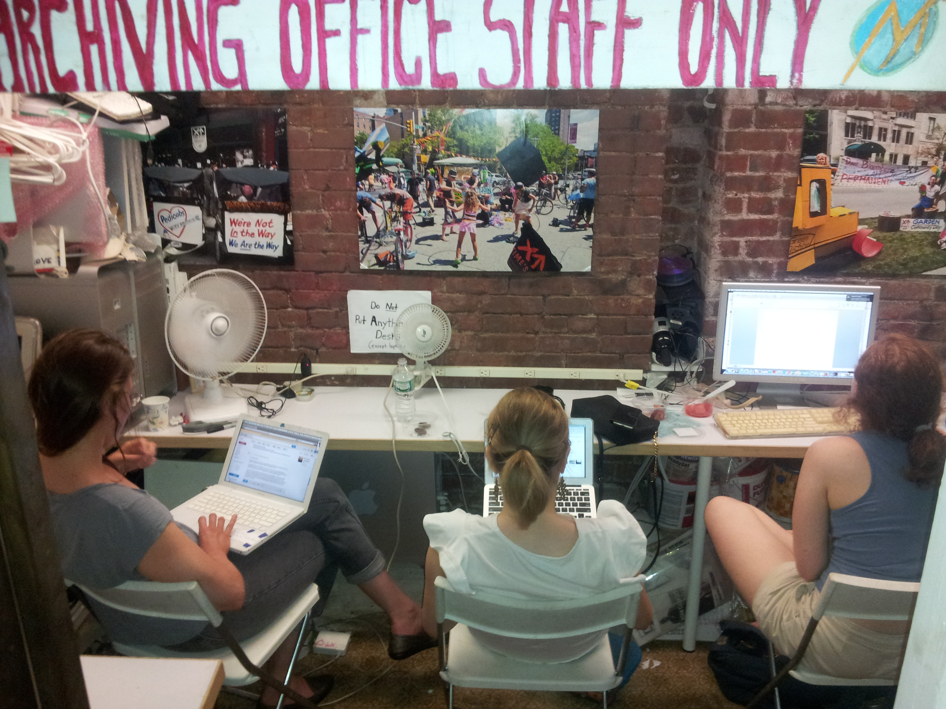 In this image, volunteers work to preseve the history of this neighborhood through archival work.